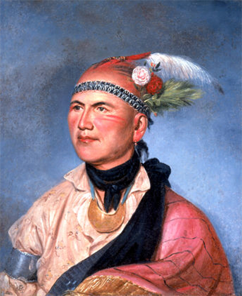 Oil portrait of Joseph Brant from life